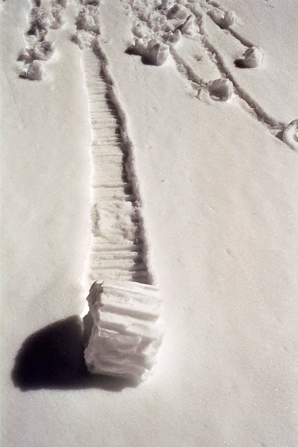 Notice the gear type formations